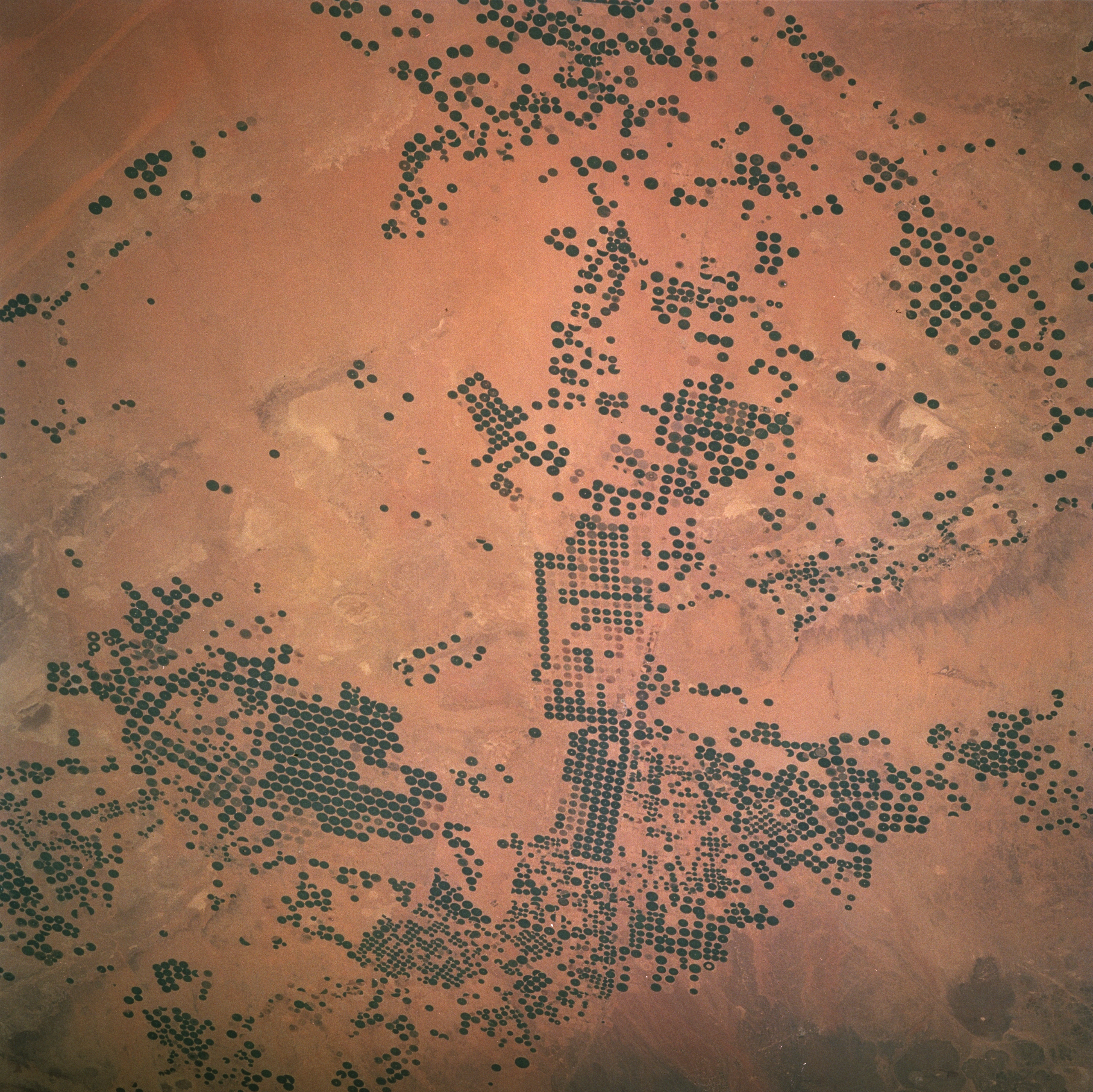 Circles of green irrigated vegetation, Saudi Arabia - April 1997 Center Pivot Irrigation, in Saudi Arabia. This irrigation project in Saudi Arabia is typical of many isolated irrigation projects scattered throughout the arid and hyper-arid regions of the Earth. Fossil water is mined from depths as great as 3,000 feet, pumped to the surface, and distributed via large center pivot irrigation feeds. The circles of green irrigated vegetation may comprise a variety of agricultural commodities from alfalfa to wheat. Diameters of the normally circular fields range from a few hundred meters to as much as 2 miles. The projects often trace out a narrow, sinuous, and seemingly random path. Actually, engineers generally seek ancient river channels now buried by the sand seas. The fossil waters mined in these projects accumulated during periods of wetter climate in the Pleistocene glacial epochs, between 10,000 to 2 million years ago, and are not being replenished under current climatic conditions. The projects, therefore, will have limited production as the reservoirs are drained. Water, of course, is the key to agriculture in Saudi Arabia. The Kingdom has implemented a multifaceted program to provide the vast supplies of water necessary to achieve the spectacular growth of the agricultural sector. A network of dams has been built to trap and utilize precious seasonal floods. Vast underground water reservoirs have been tapped through deep wells. Desalination plants have been built to produce fresh water from the sea for urban and industrial use, thereby freeing other sources for agriculture. Facilities have also been put into place to treat urban and industrial run-off for agricultural irrigation. These efforts collectively have helped transform vast tracts of the desert into fertile farmland. Land under cultivation has grown from under 400,000 acres in 1976 to more than 8 million acres in 1993.